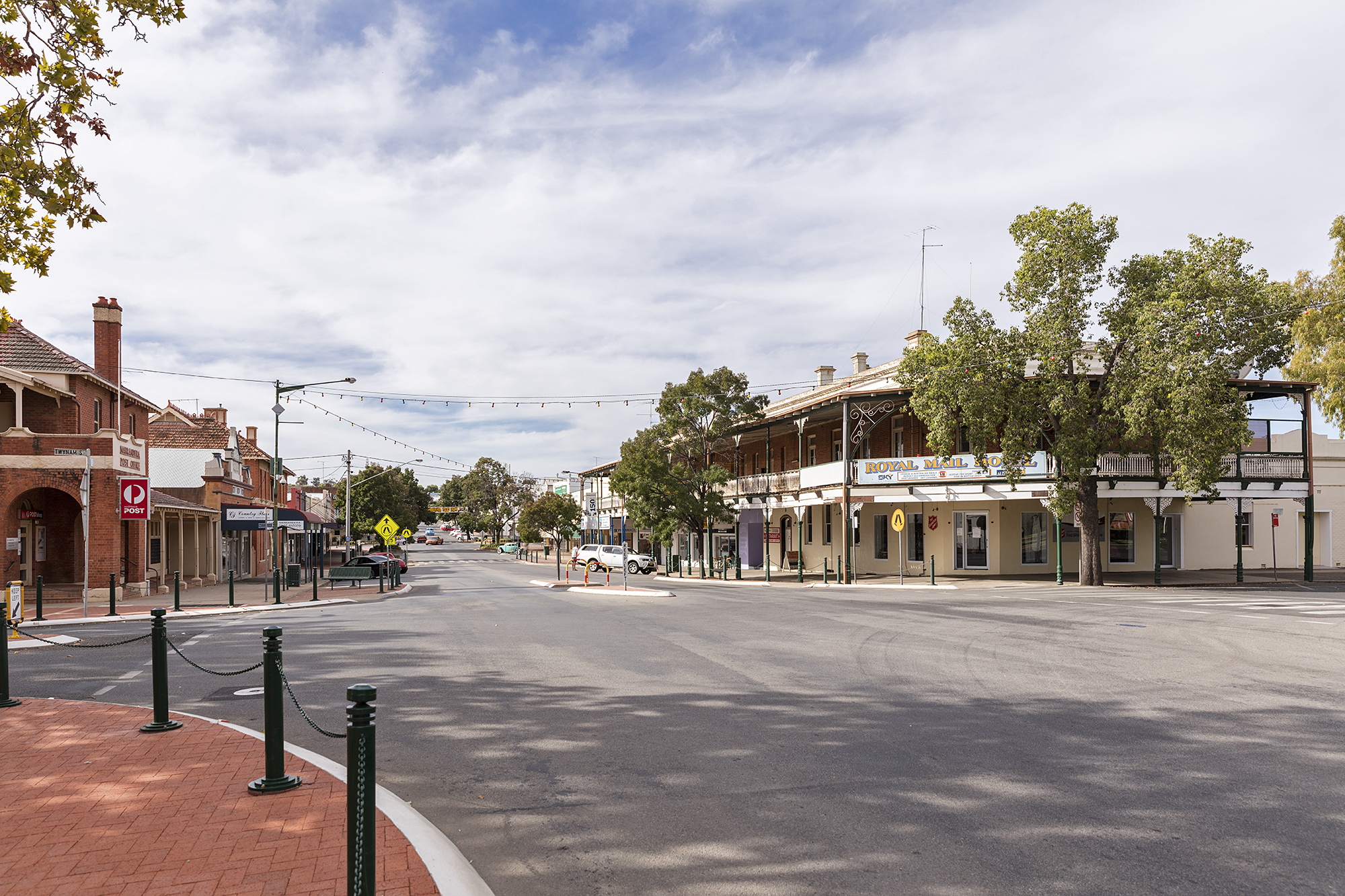 Looking up East St in Narrandera.